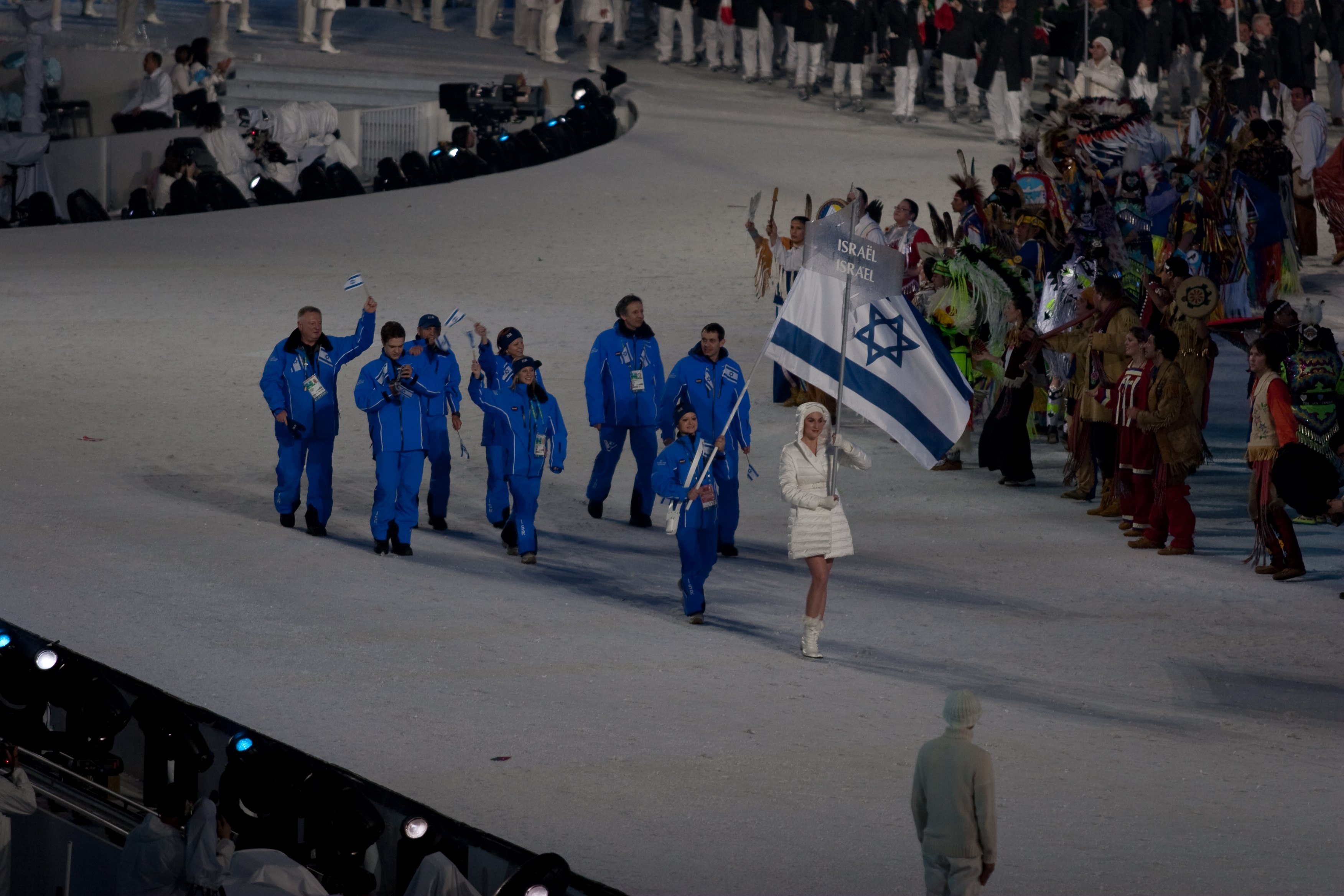 Israeli team at the opening ceremony of Vancouver's winter olympics